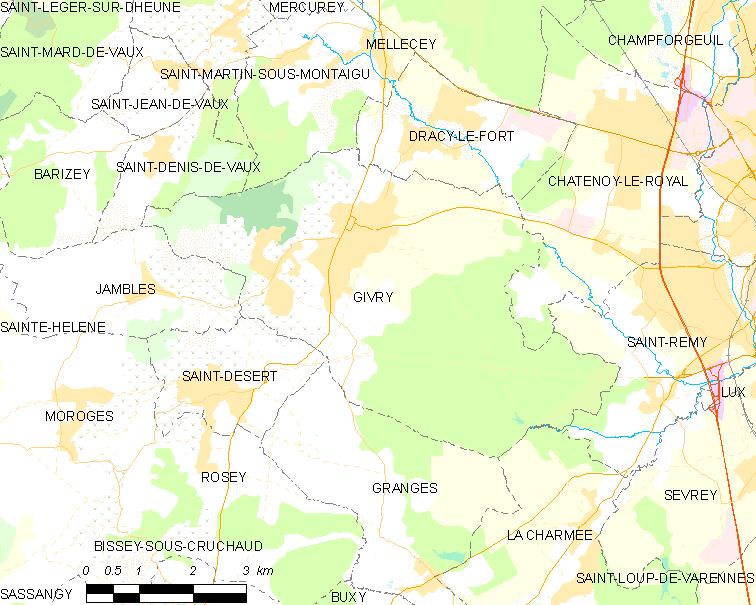 Map of French municipality